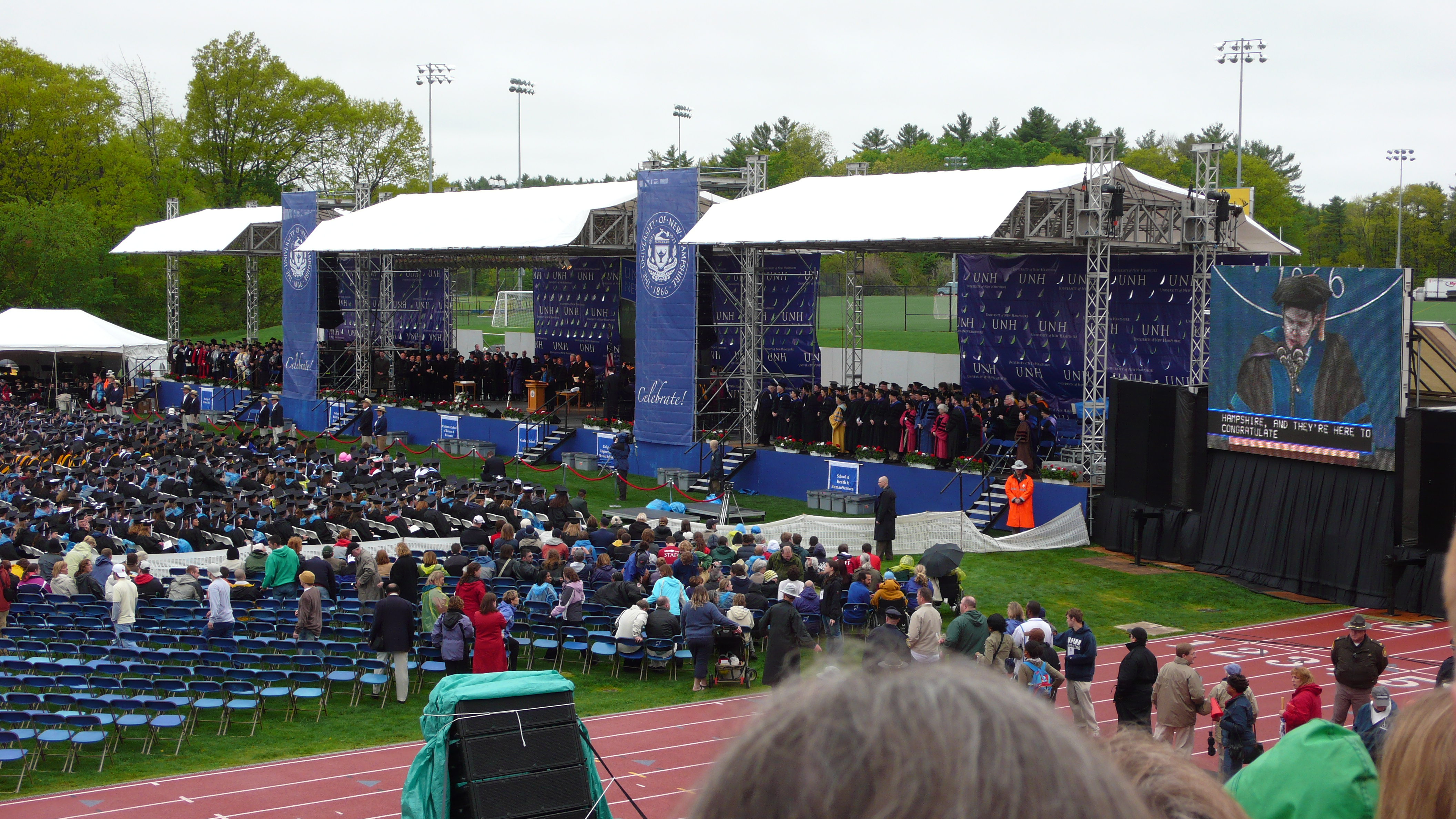 The beginning of the commencement ceremony at the University of New Hampshire, on May 19, 2007. Later, George H. W. Bush and Bill Clinton would address the crowd and receive honorary doctorates.